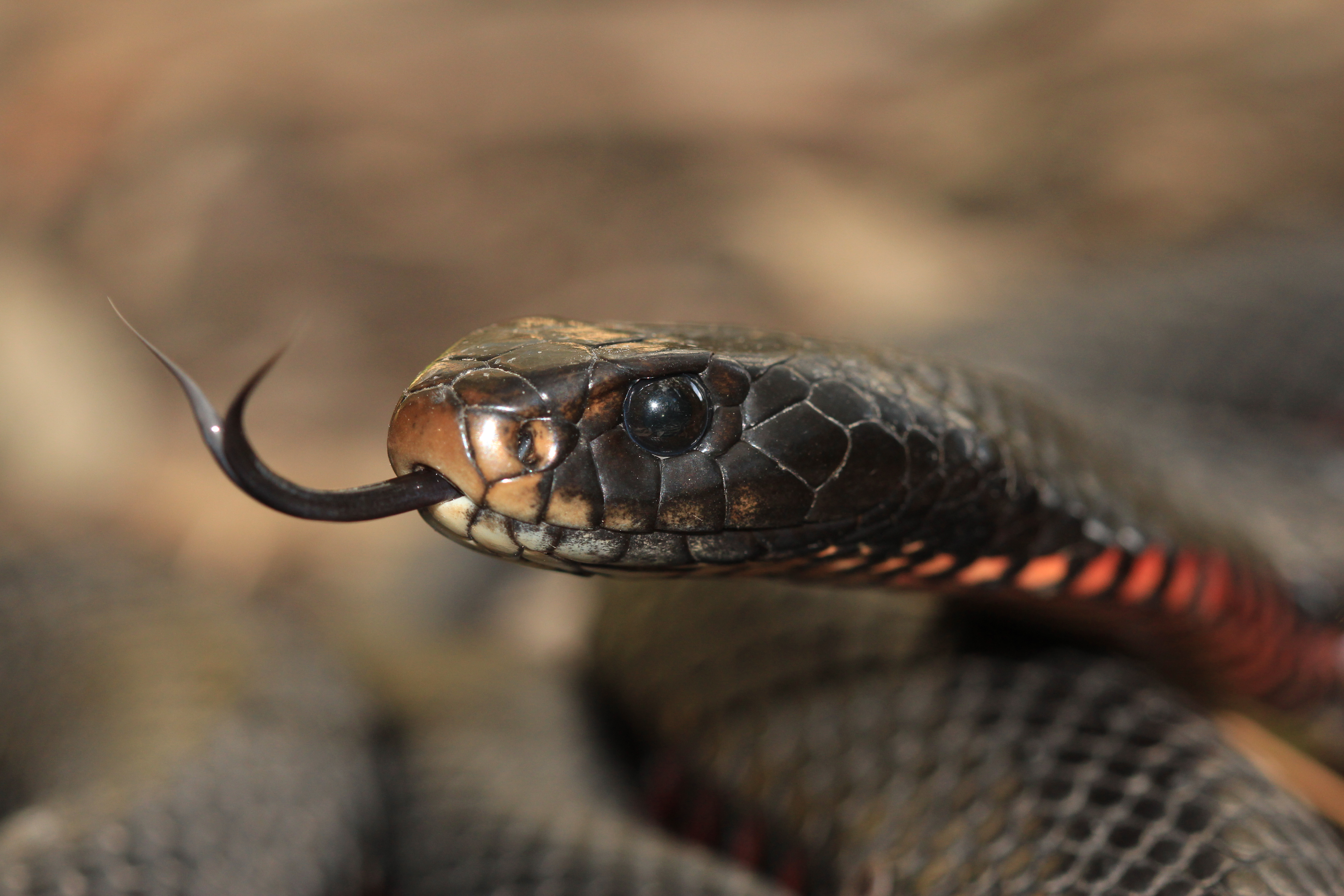 A large Red-bellied Black Snake (Pseudechis porphyriacus), from Awabakal Reserve, in Dudley New South Wales. This iconic Aussie snake was found soaking up some early morning sun in the reserve, by the swamp, keeping an eye out for a meal.